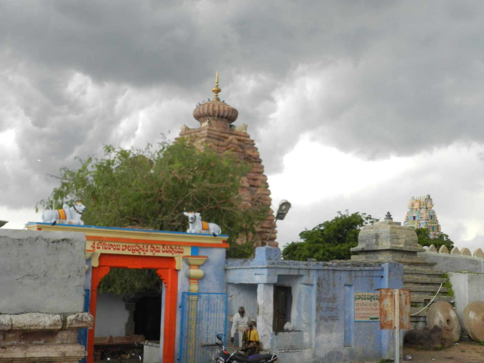 Balabrahmeswara Temple at Alampur